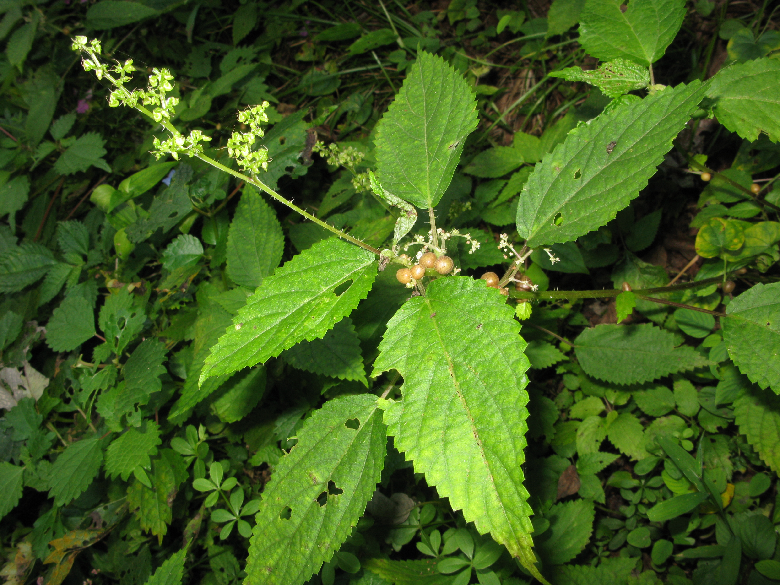 Laportea bulbifera, Aizu area, Fukushima pref., Japan